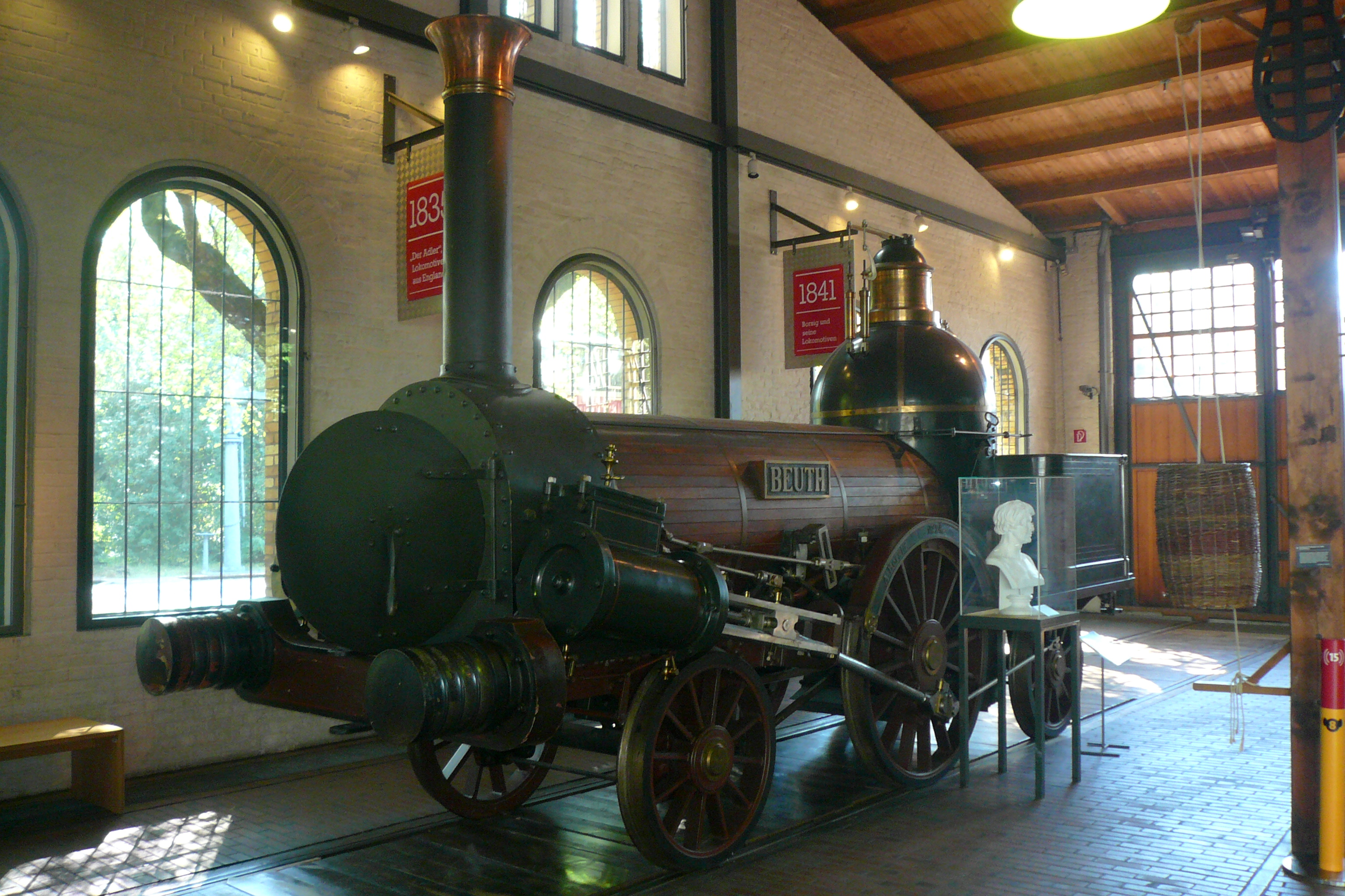 Reproduction of steam locomotive Beuth in German Museum of Technology in Berlin.